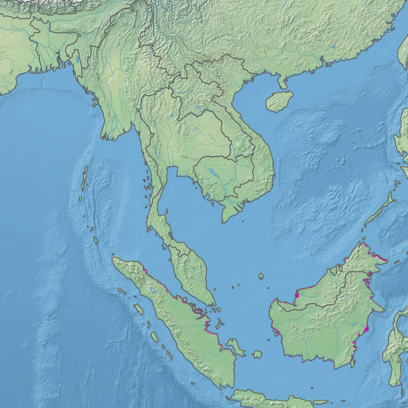 Ecoregion IM1405 - Sunda Shelf mangroves (in purple)